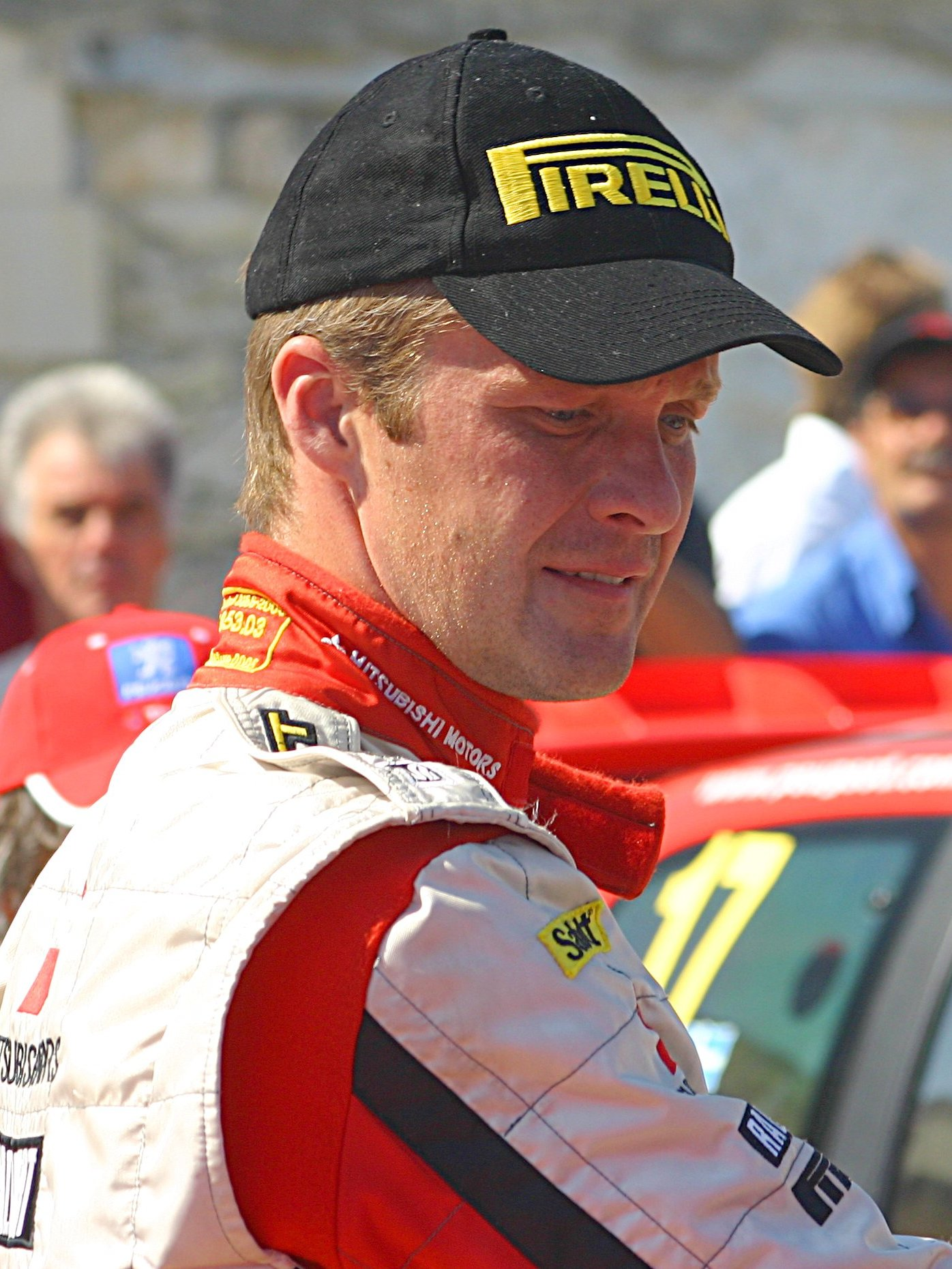 Harri Rovanperä at the 2005 Cyprus Rally.